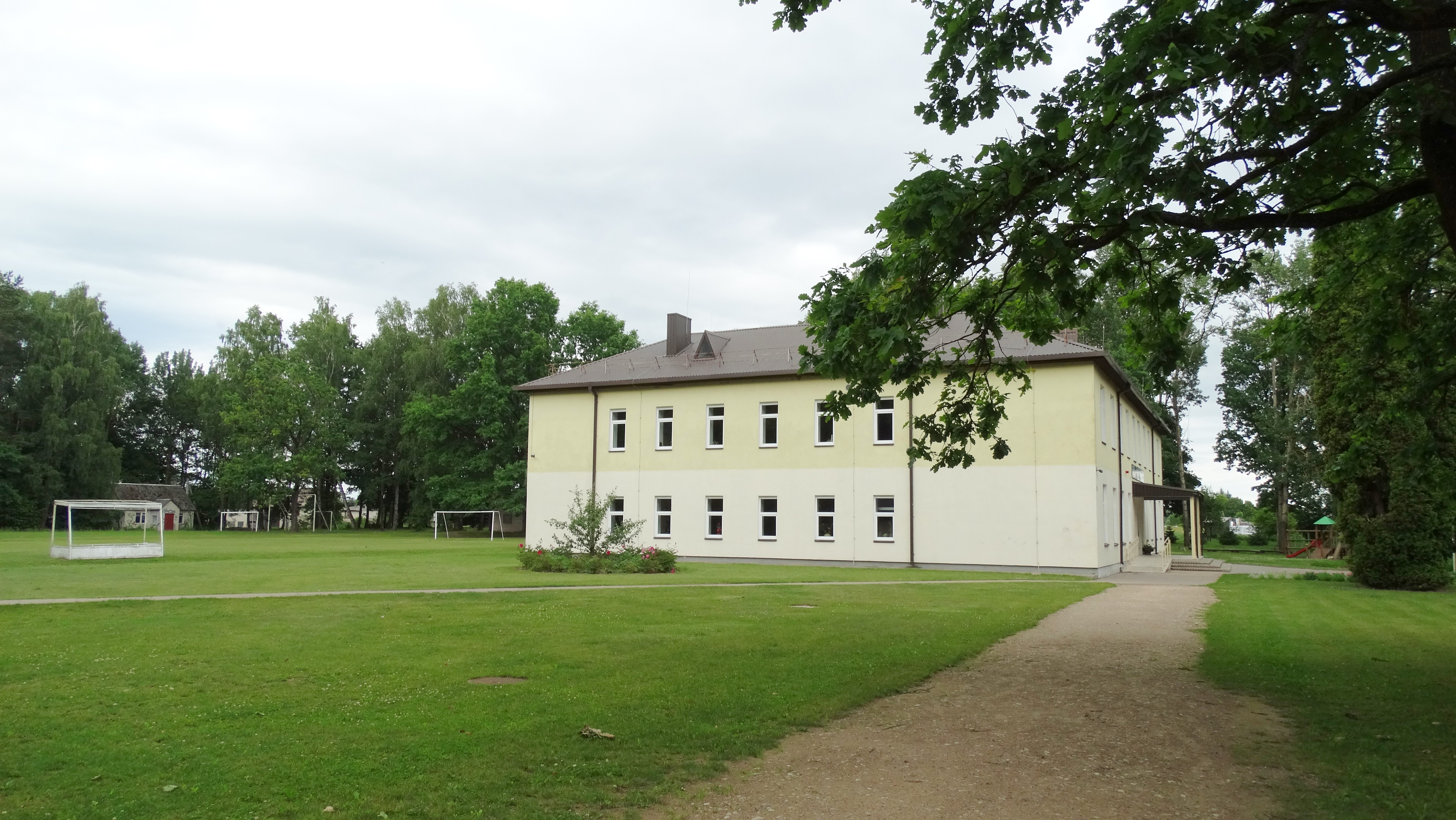 School–multifunction centre, Bartkuškis, Širvintos District, Lithuania